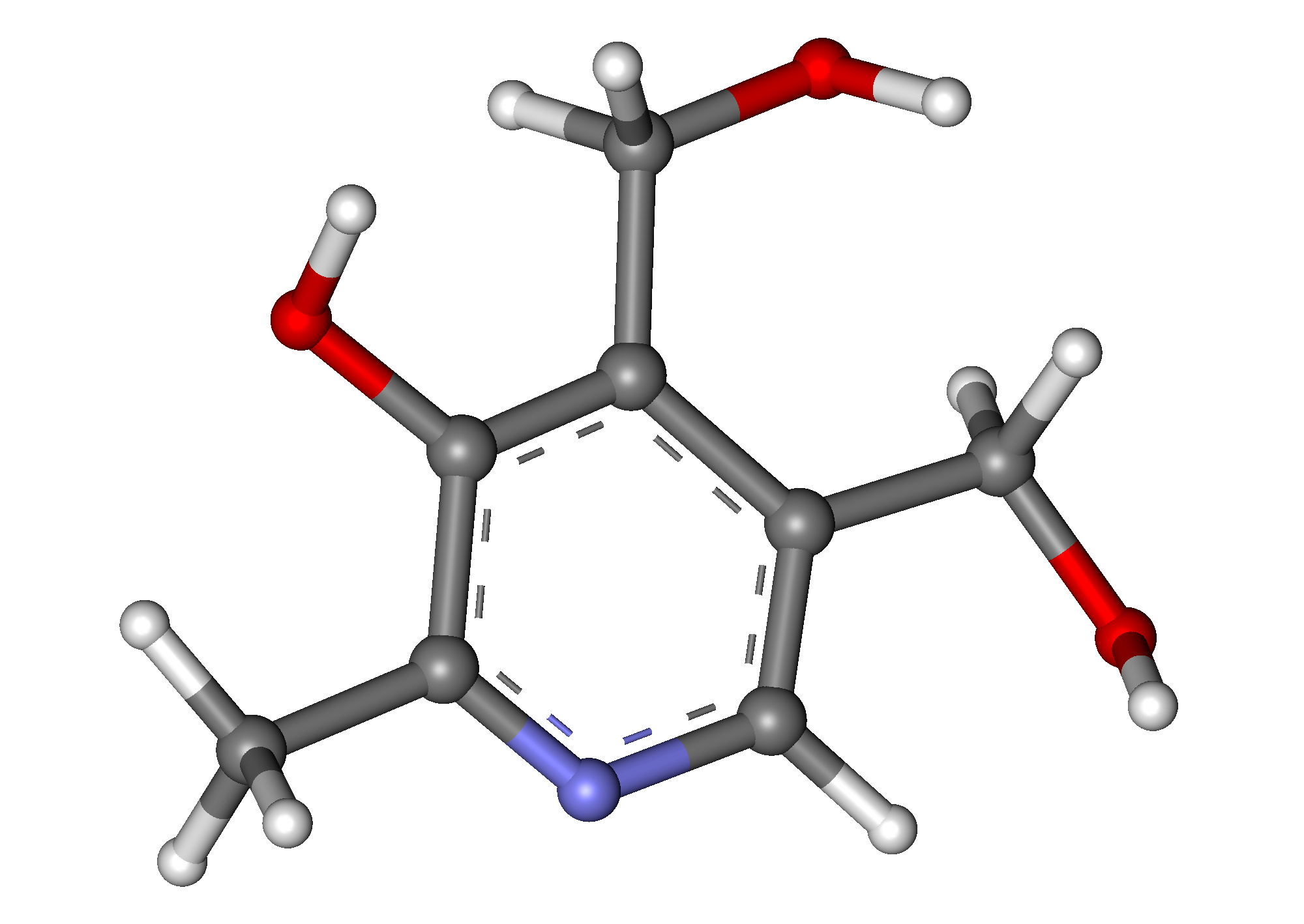 Ball-and-stick model of pyridoxine molecule. The structure is taken from ChemSpider. ID 1025